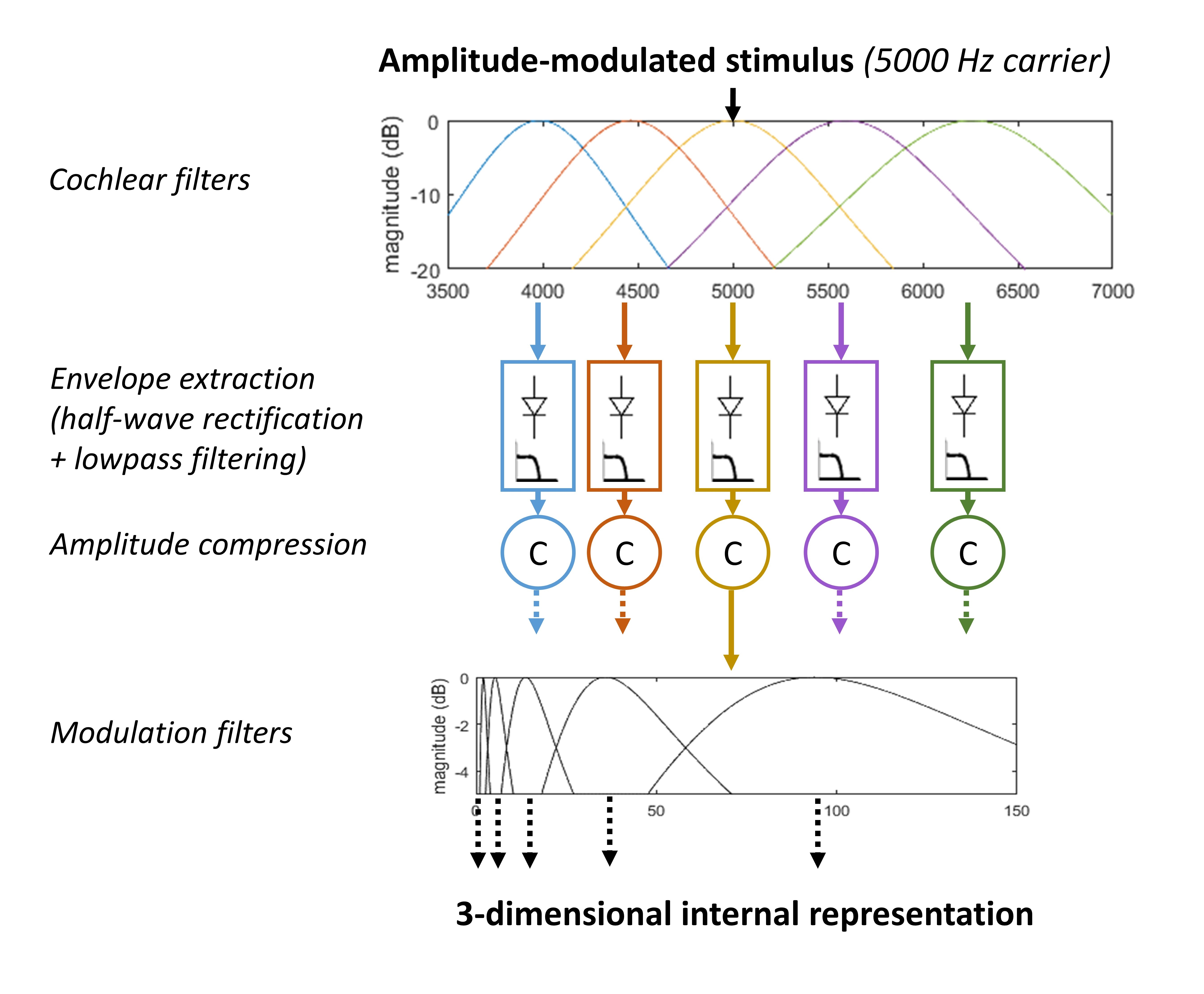 Schematic representation of the structure of the PEMO and EPSM models of envelope perception